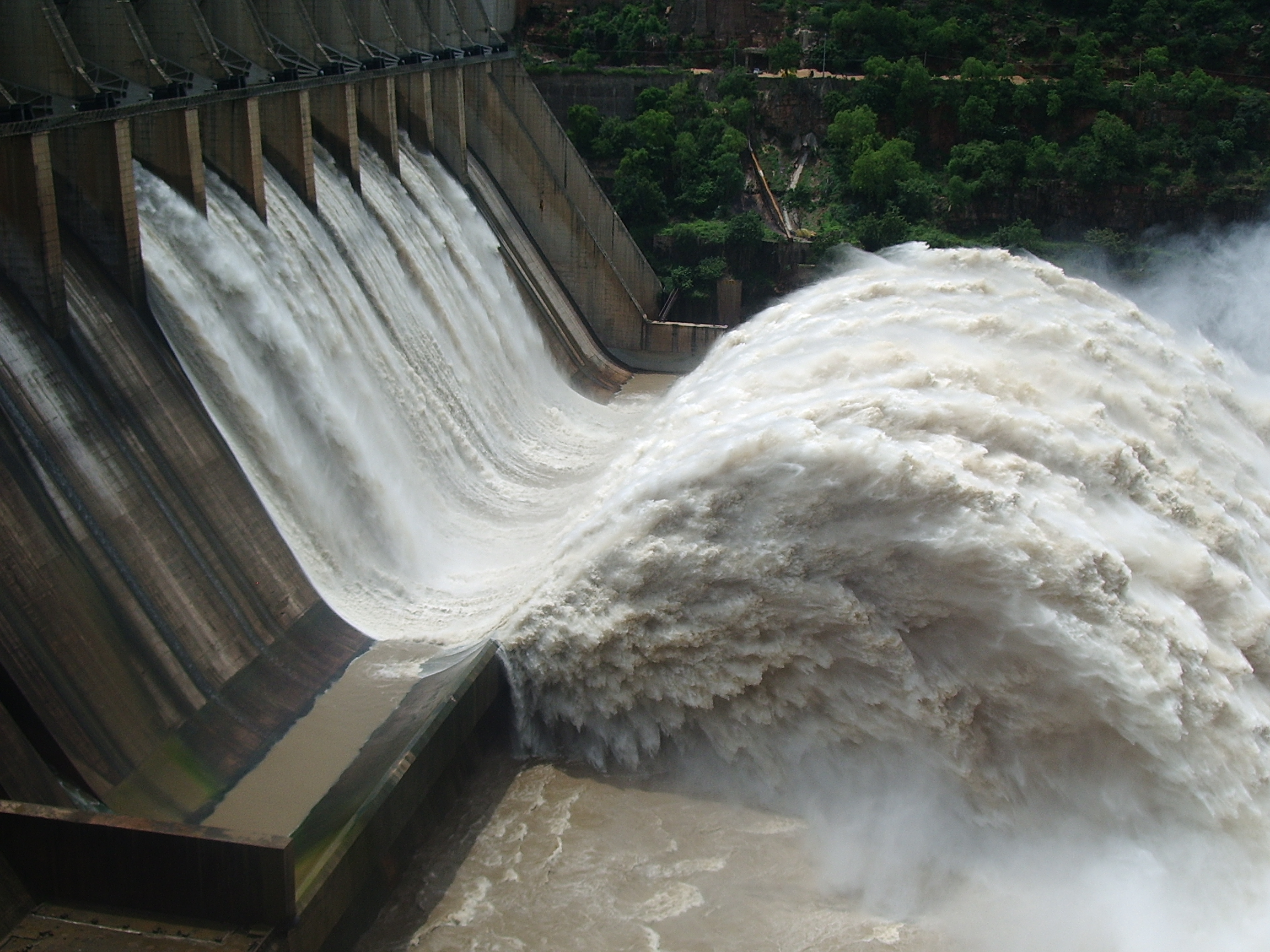 Srisailam Dam with Crust Gates Open